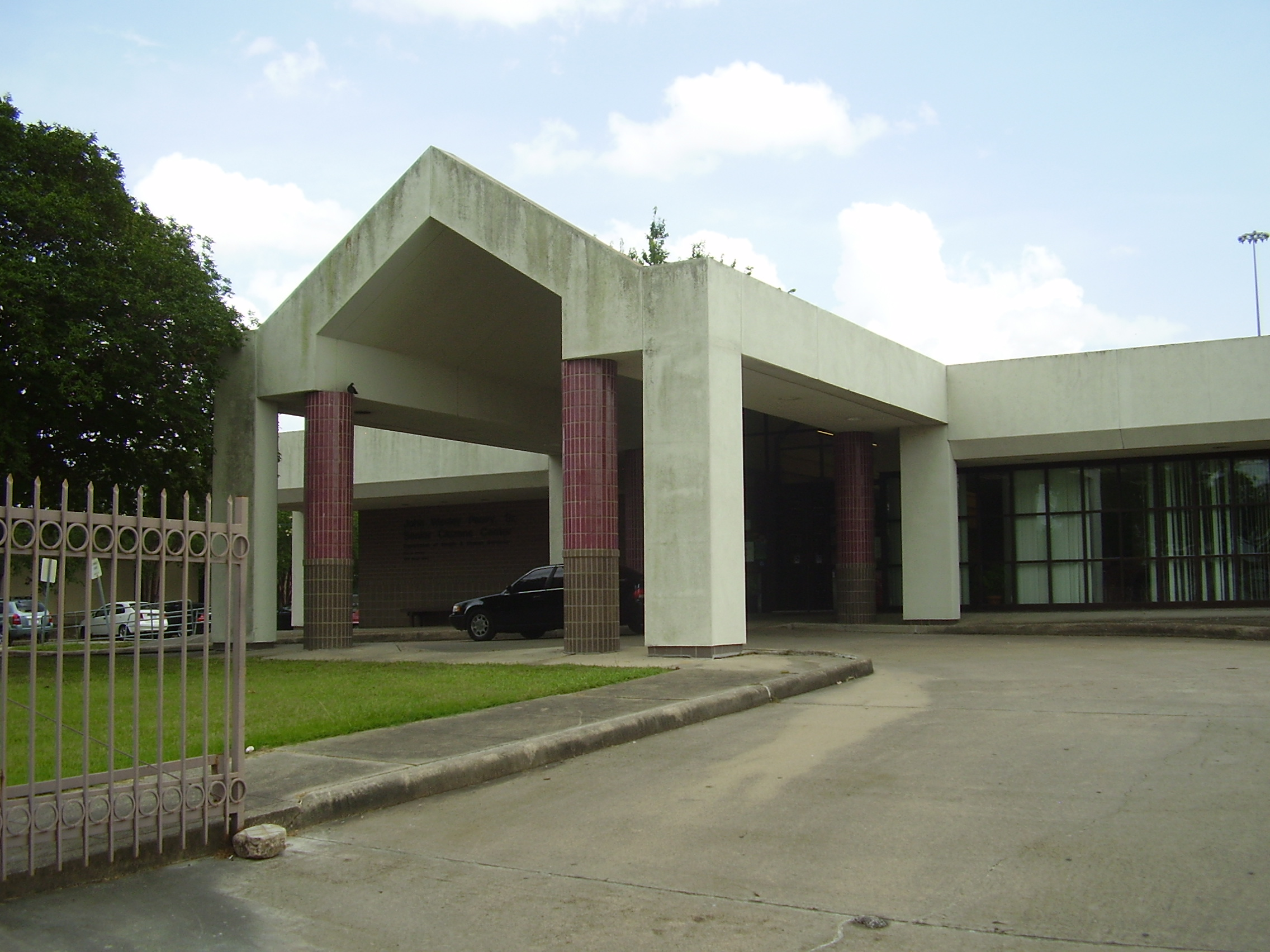 John Wesley Peavy, Sr. Senior Citizens Center - Houston Department of Health and Human Services (HDHHS)